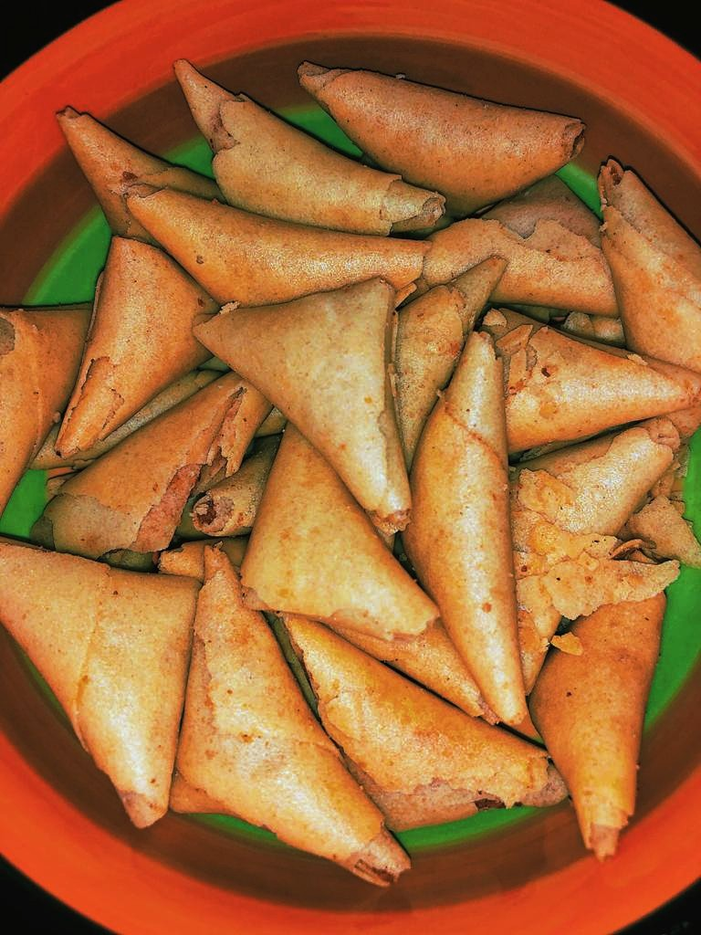 Indonesian samosa identified as kue kering